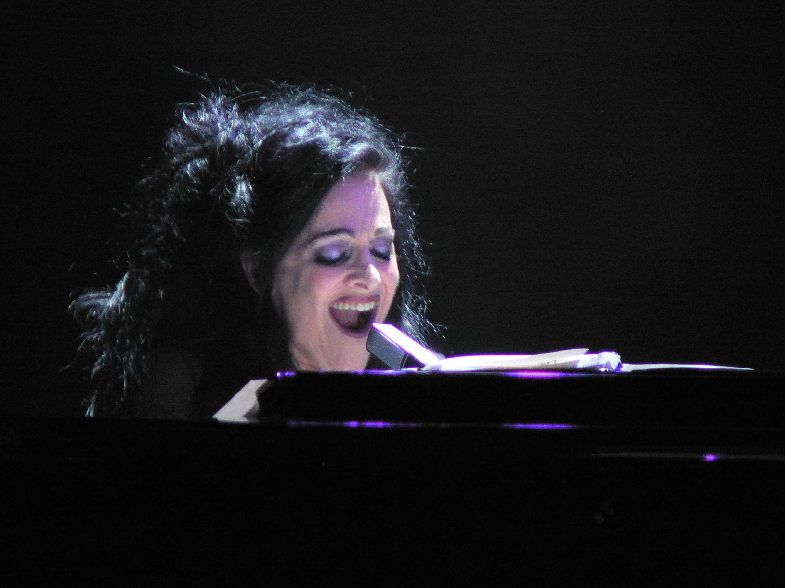 Diamanda Galas singing